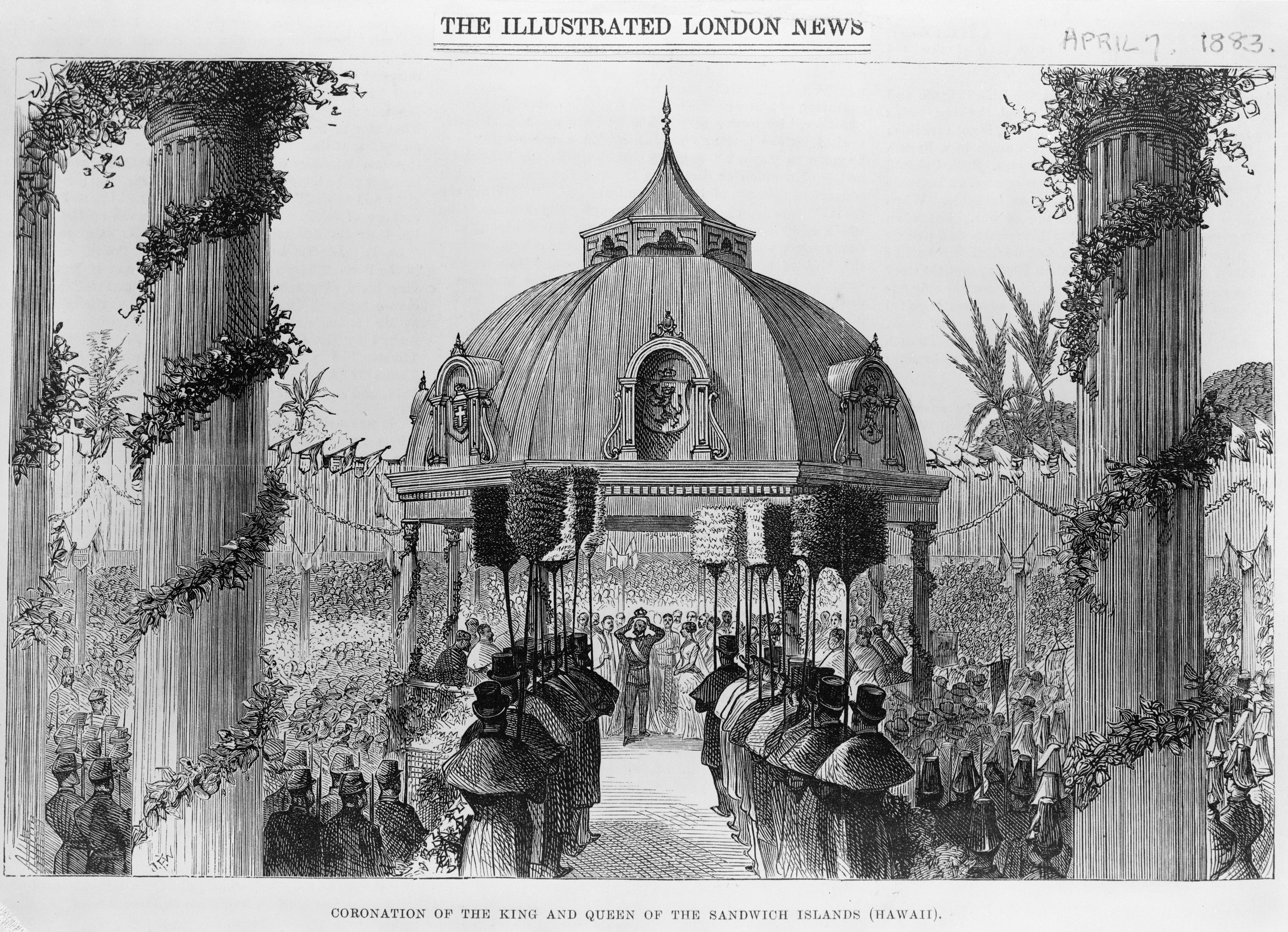 Kalakaua's Coronation from Illustrated London News, 1883. With Royal Coronation Pavilion.